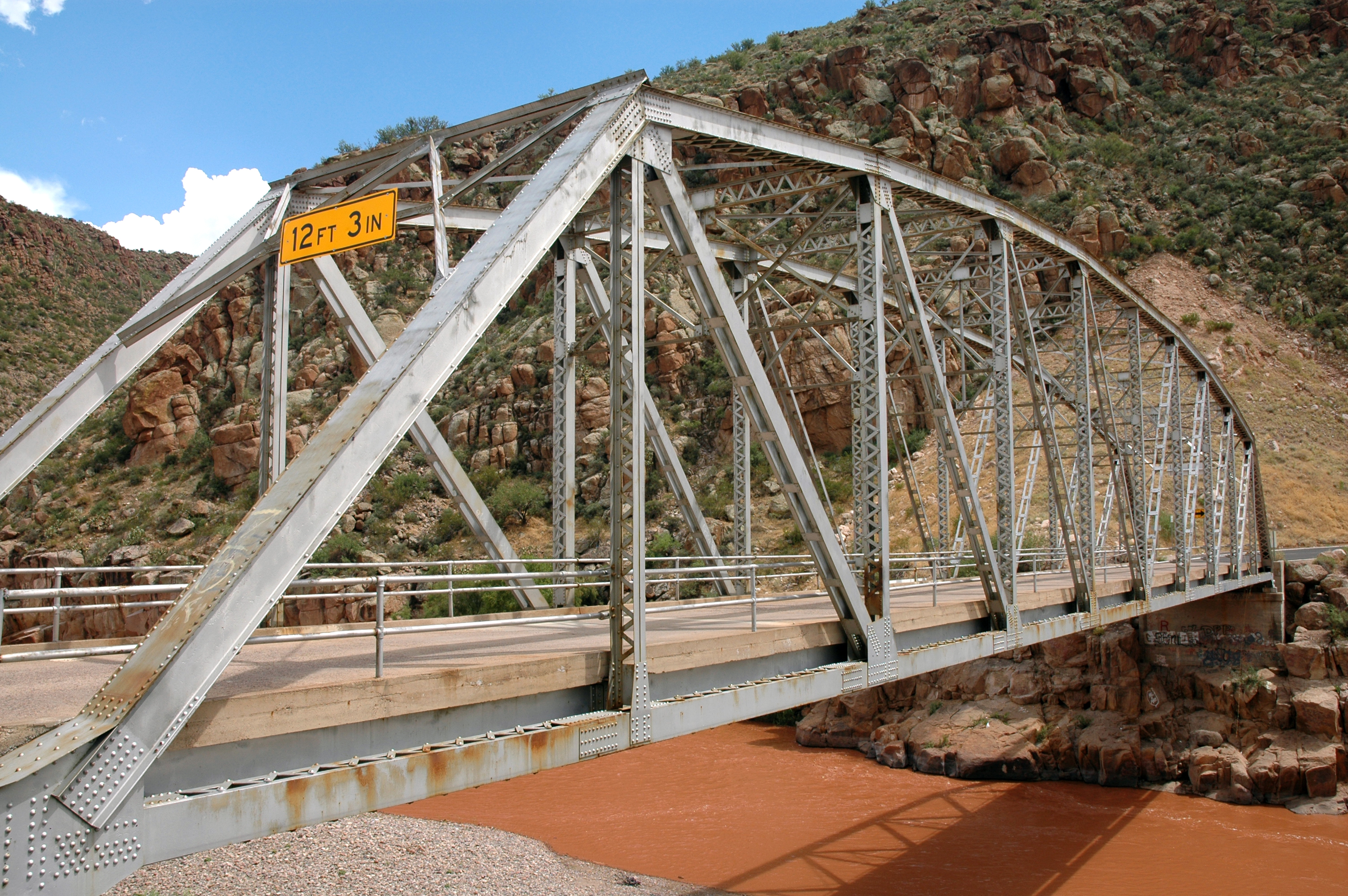 Completed in 1920, this 220 ft. historically-notable, Parker through truss bridge crosses the Salt river near milepost 262 of AZ State Route 288 at the head of Roosevelt Lake. [1]